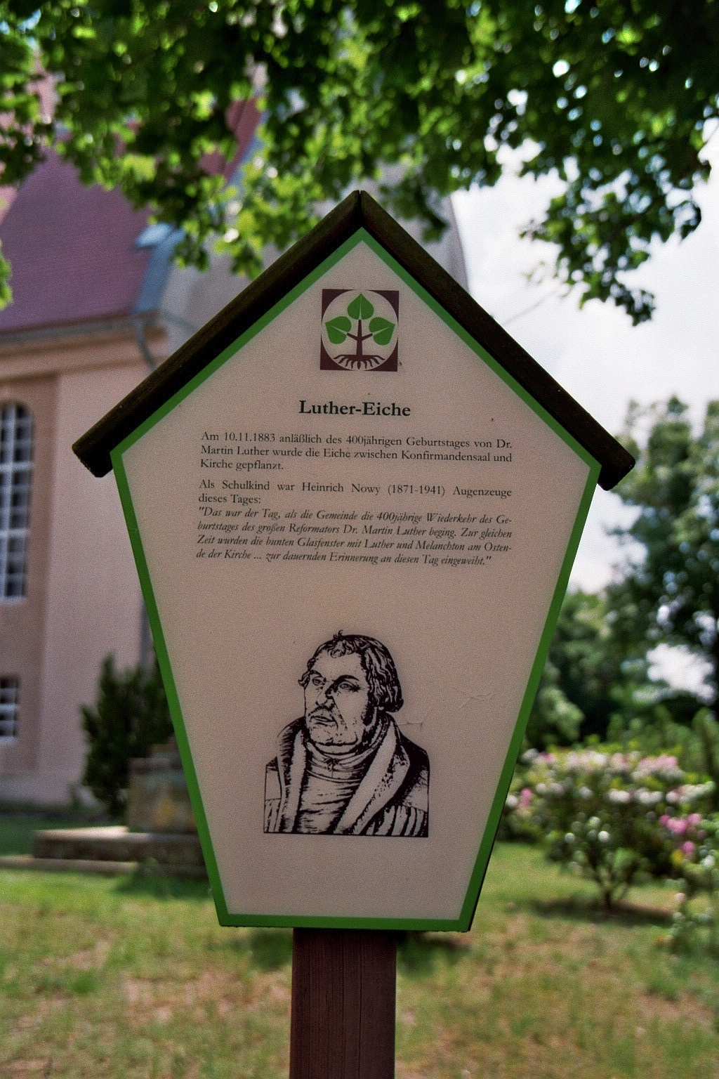 Information board at the Luther oak (Luther-Eiche) beside the lutheran church in Burg (Spreewald), Landkreis Spree-Neiße, Brandenburg, Germany.